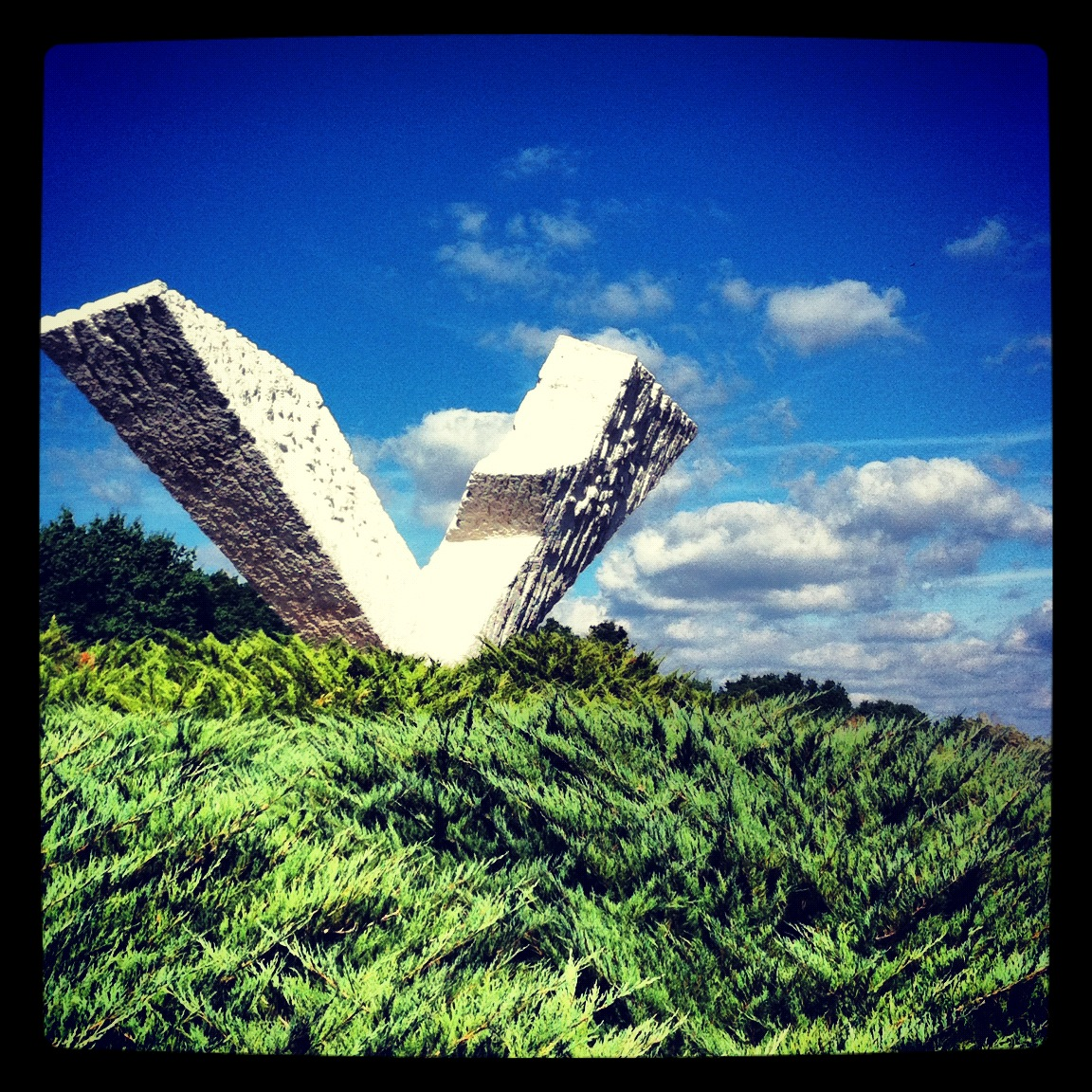 WWII Monument in Kragujevac